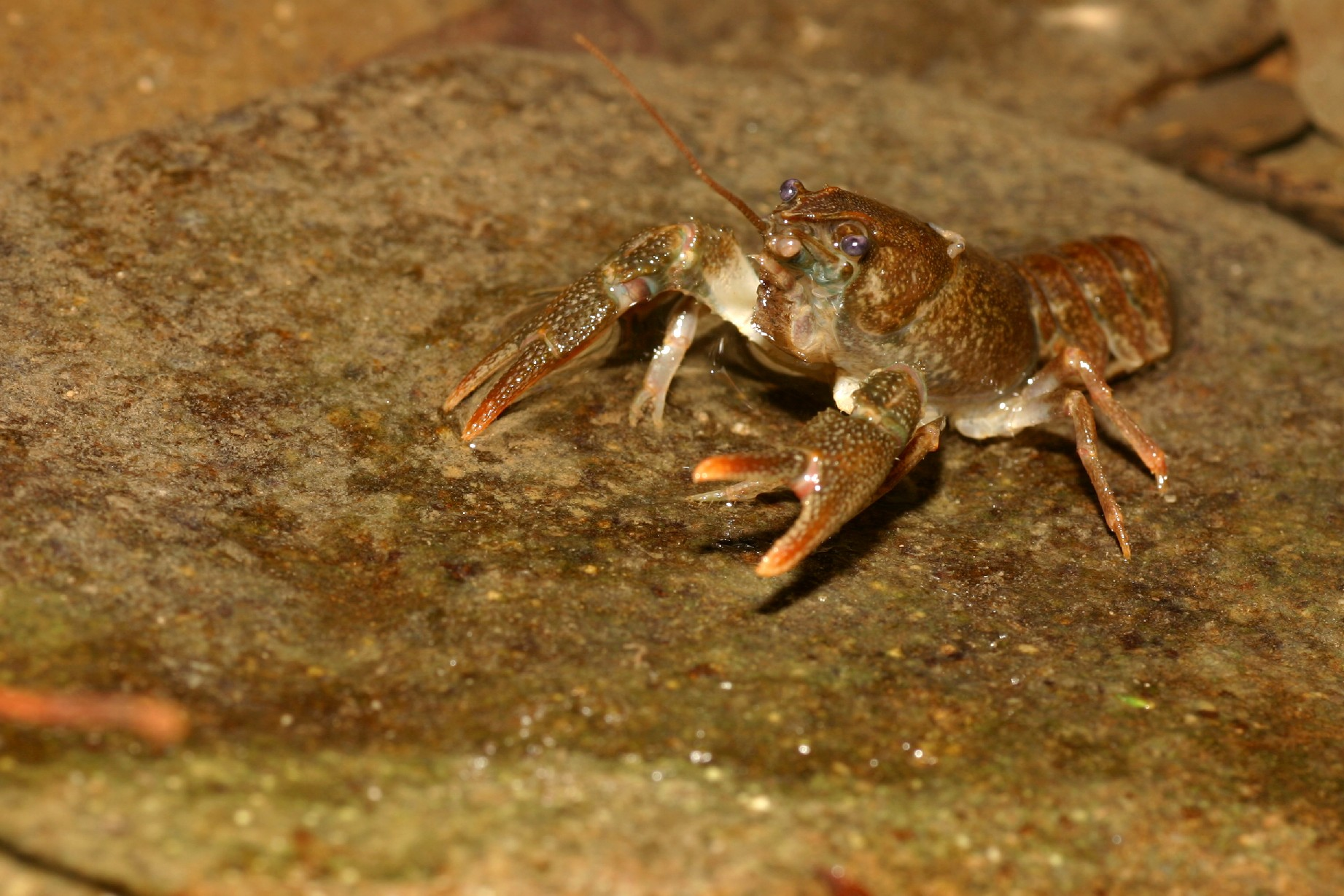 crayfish (Austropotamobius torrentium). Photographed in near Gruberau (Lower Austria).